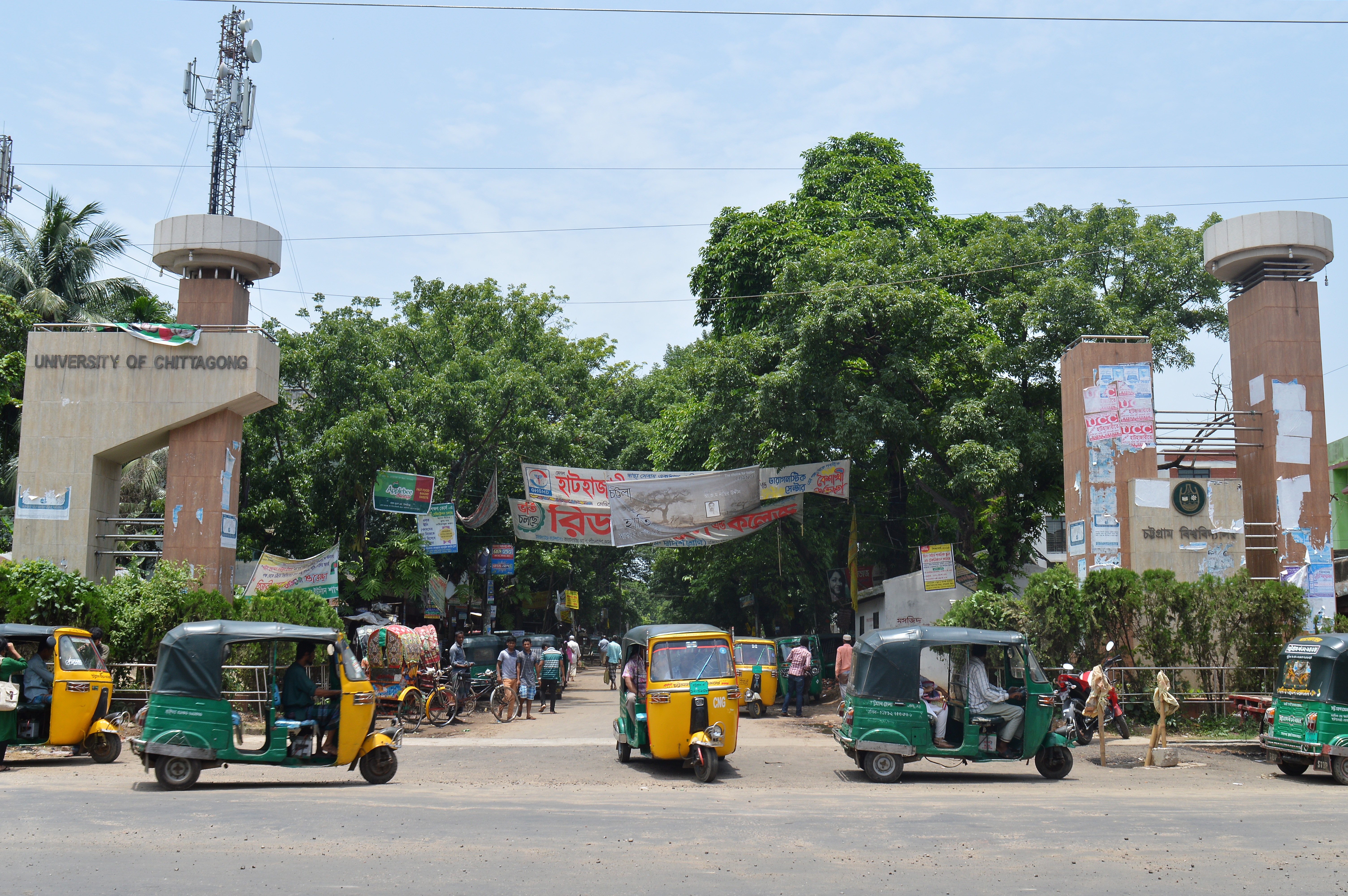 University of Chittagong portal